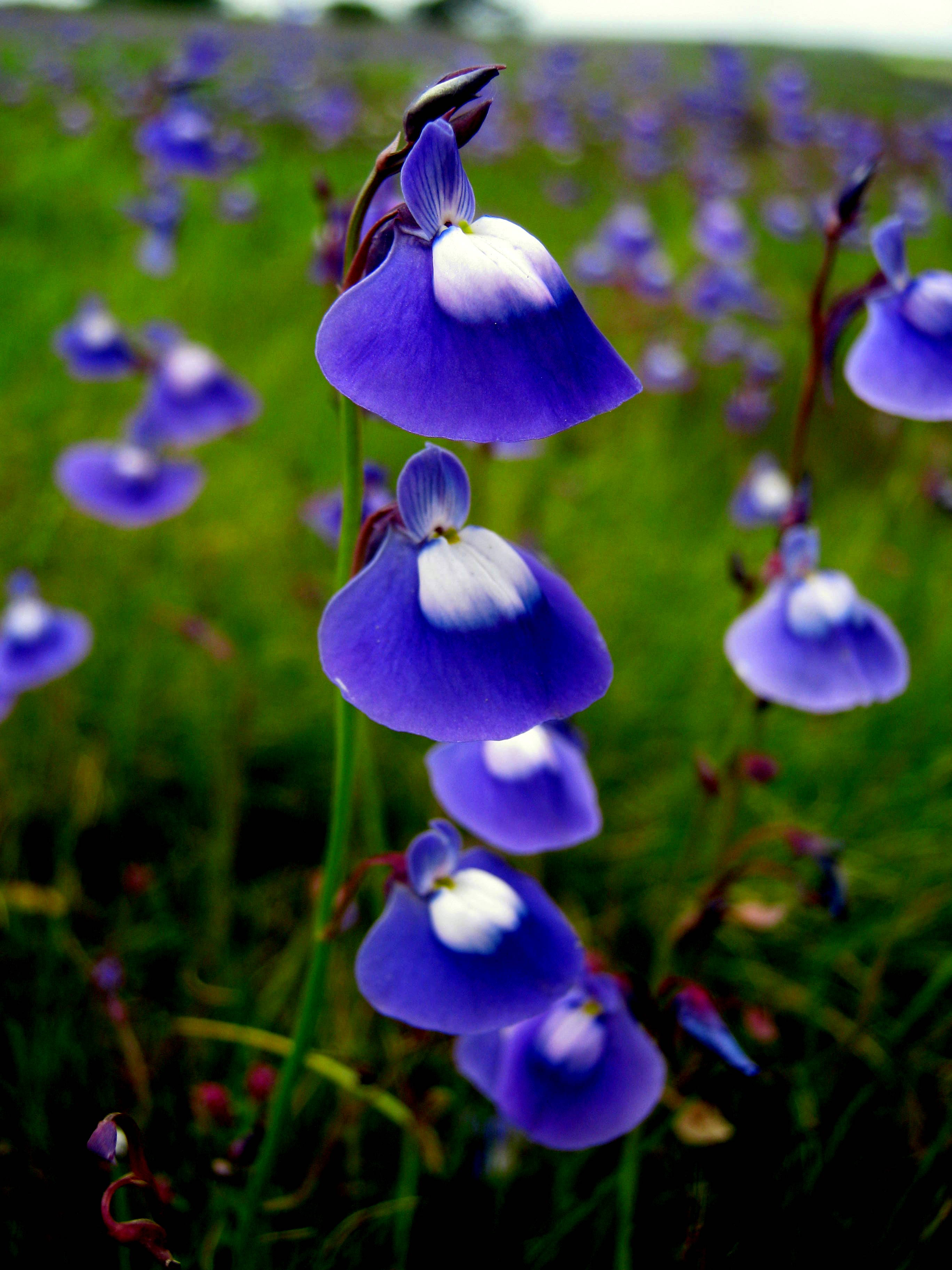 Utricularia arcuata, at Kaas plateau.